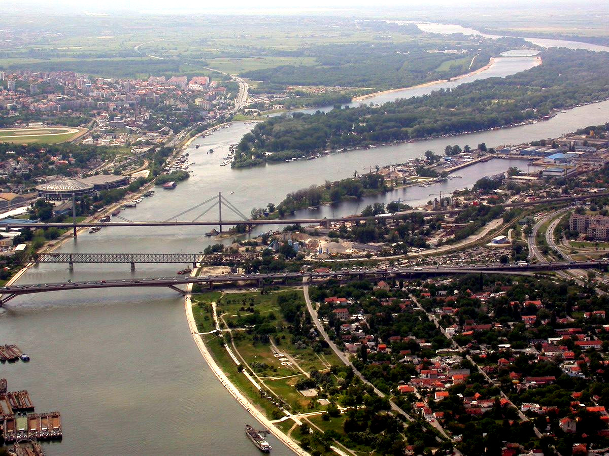 Overview of the three Belgrade bridges: Gazela Bridge, Old Railroad Bridge, and New Railroad Bridge. Dome to the left is Belgrade Fair, or Beogradski sajam.